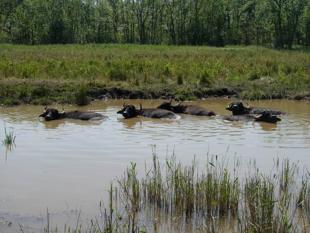 Water Buffalo Used to graze this area of Chippenham Fen as they cope with the damp conditions well. Cooling off during a warm day.